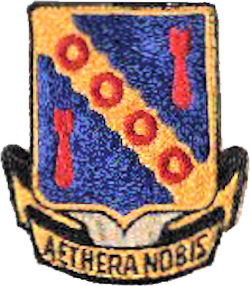 Emblem of the USAF 42d Bombardment Wing